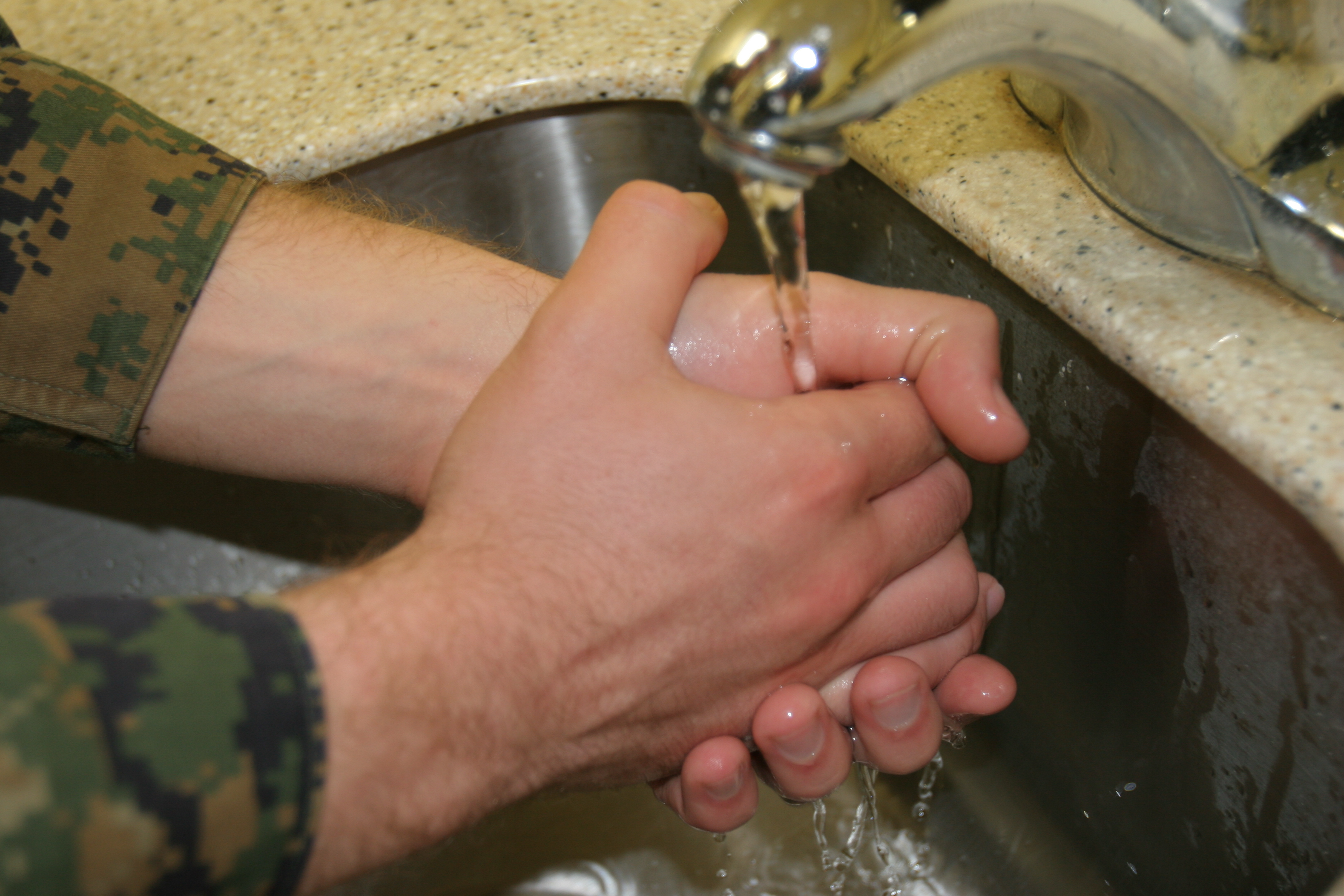 According to the Centers for Disease Control, the right way to wash your hands is to wet your hands with clean running water and apply soap. Rub hands together to make a lather and scrub well, making sure to clean the backs of your hands and underneath the fingernails as well. Continue rubbing hands for 20 seconds. Rinse, and dry your hands using a clean towel or by air drying. Thorough handwashing can go a long way toward staying healthy in flu season.